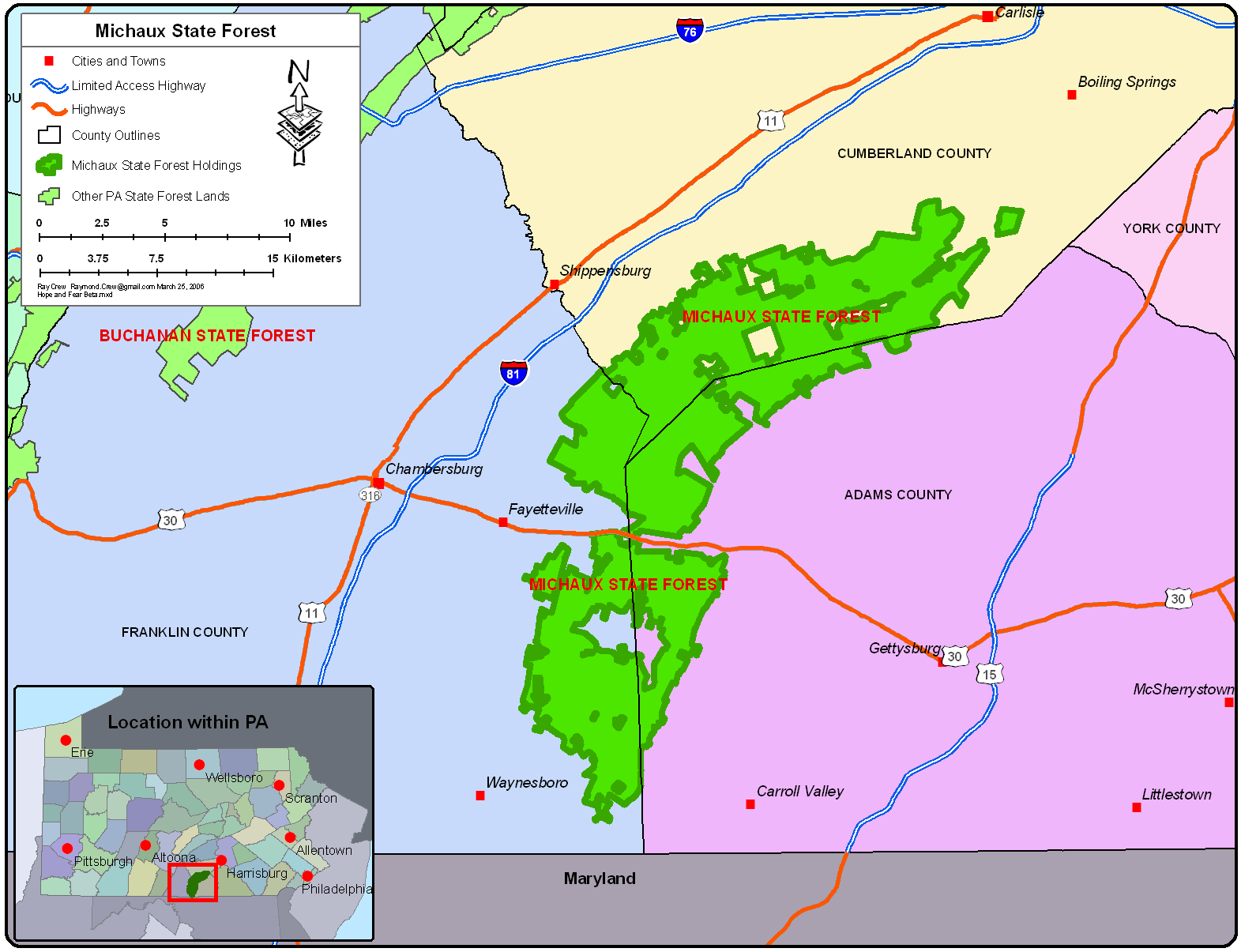 Map created using ArcMap 9.1 with Service Pack 1 by Raymond Crew. Data layers from ESRI Data 2004, PA DCNR data and USGS data. Exported as a 150 dpi PNG file from ArcMap.